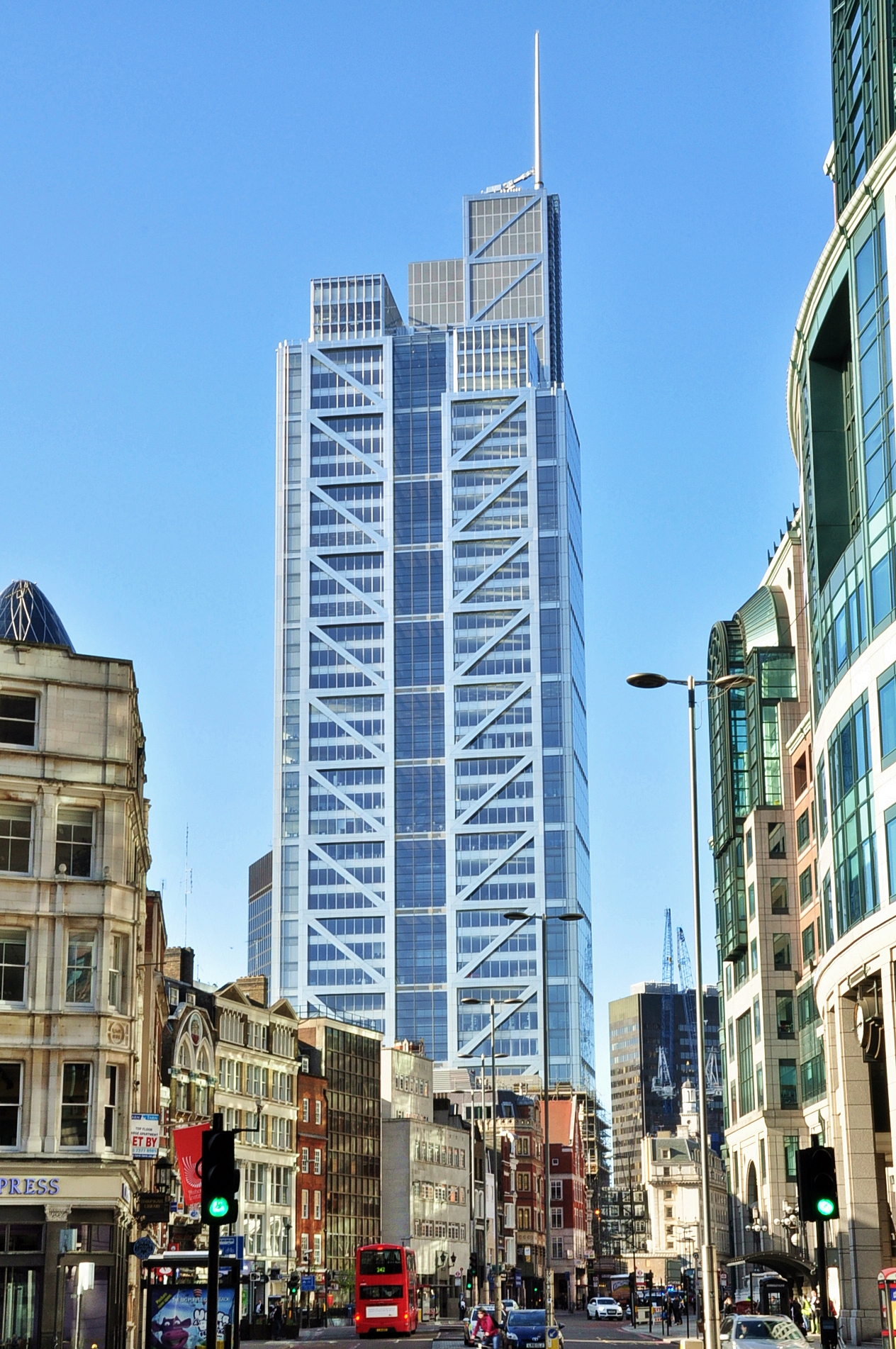 Heron Tower seen from Bishopsgate